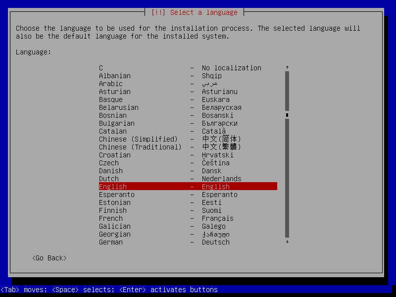 This was taken on a virtual system.